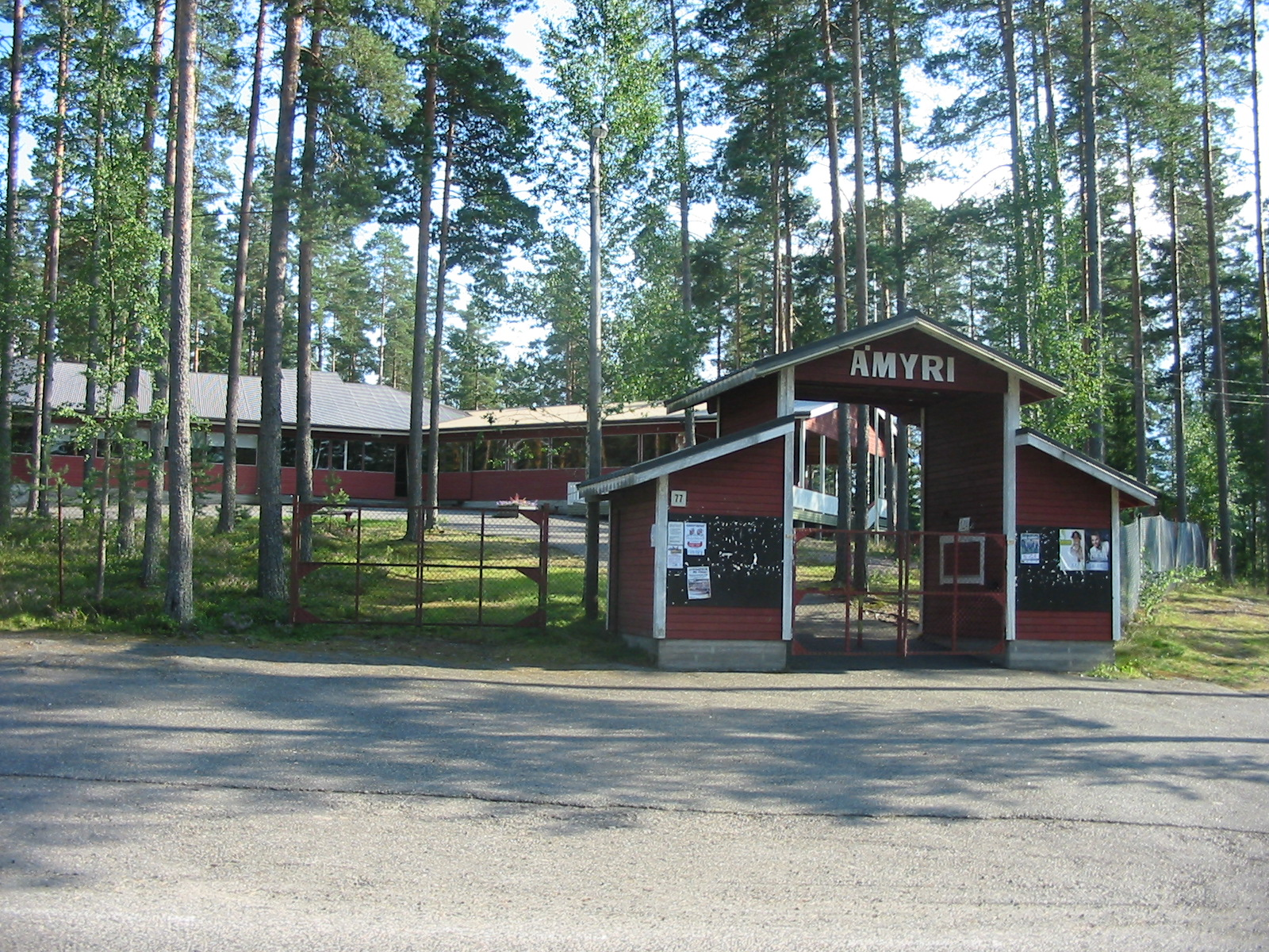 Ämyri open air dance pavillion in Somerniemi, Somero, Finland